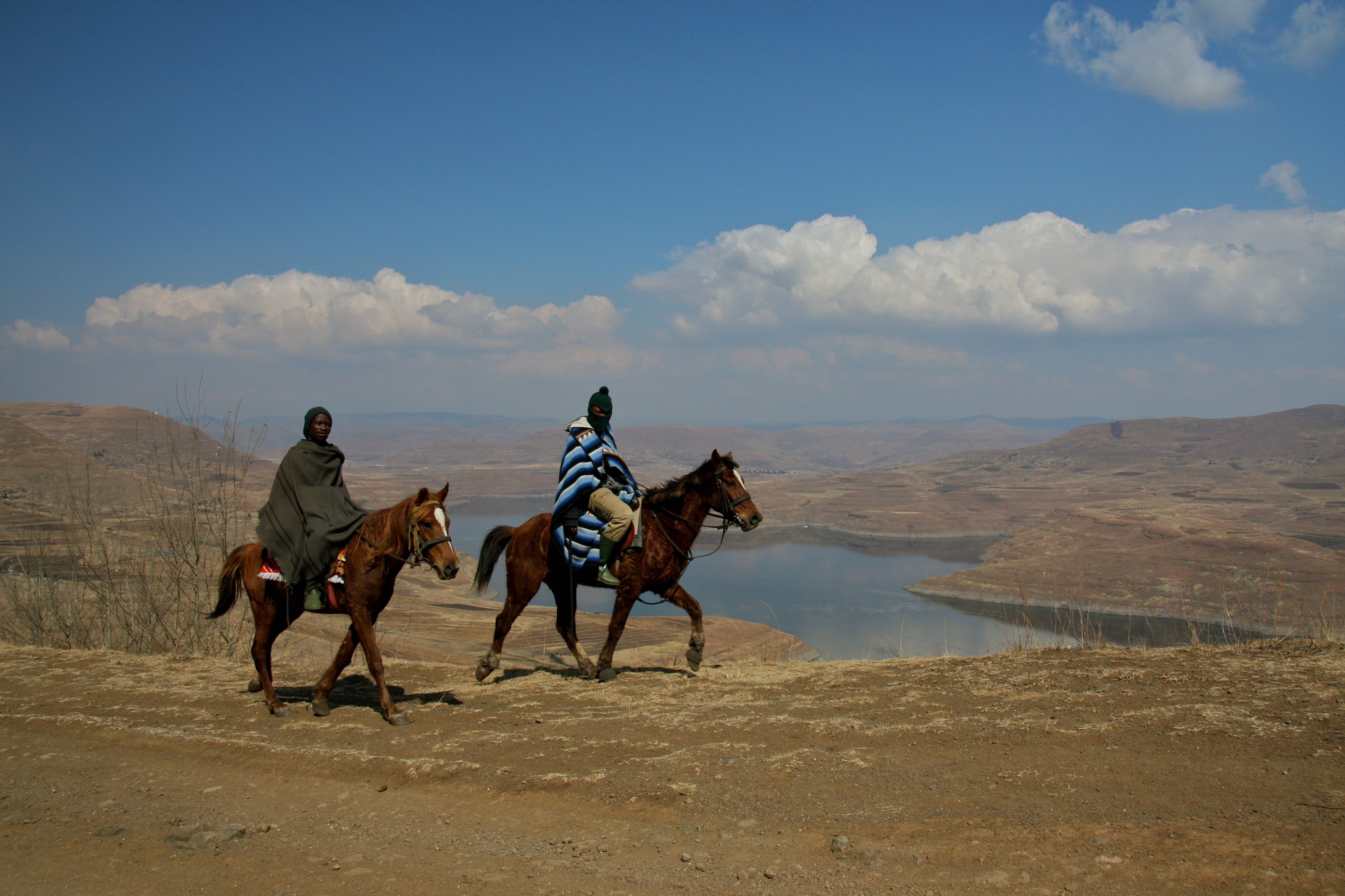 This is an image with the theme "Africa on the Move or Transport" from: Lesotho